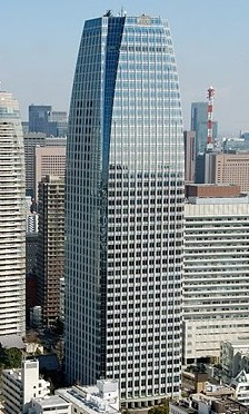 Atago Green Hills, viewed from Tokyo tower. Tokyo, Japan.